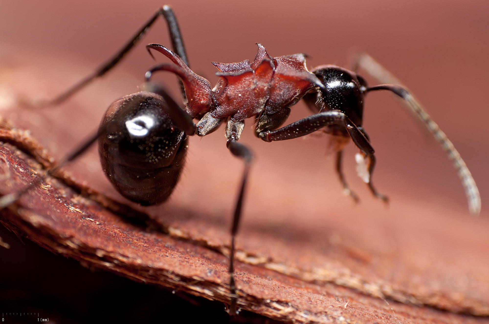 Polyrhachis lamellidens